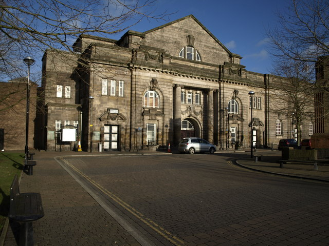 Kings Hall, Kingsway, Stoke.